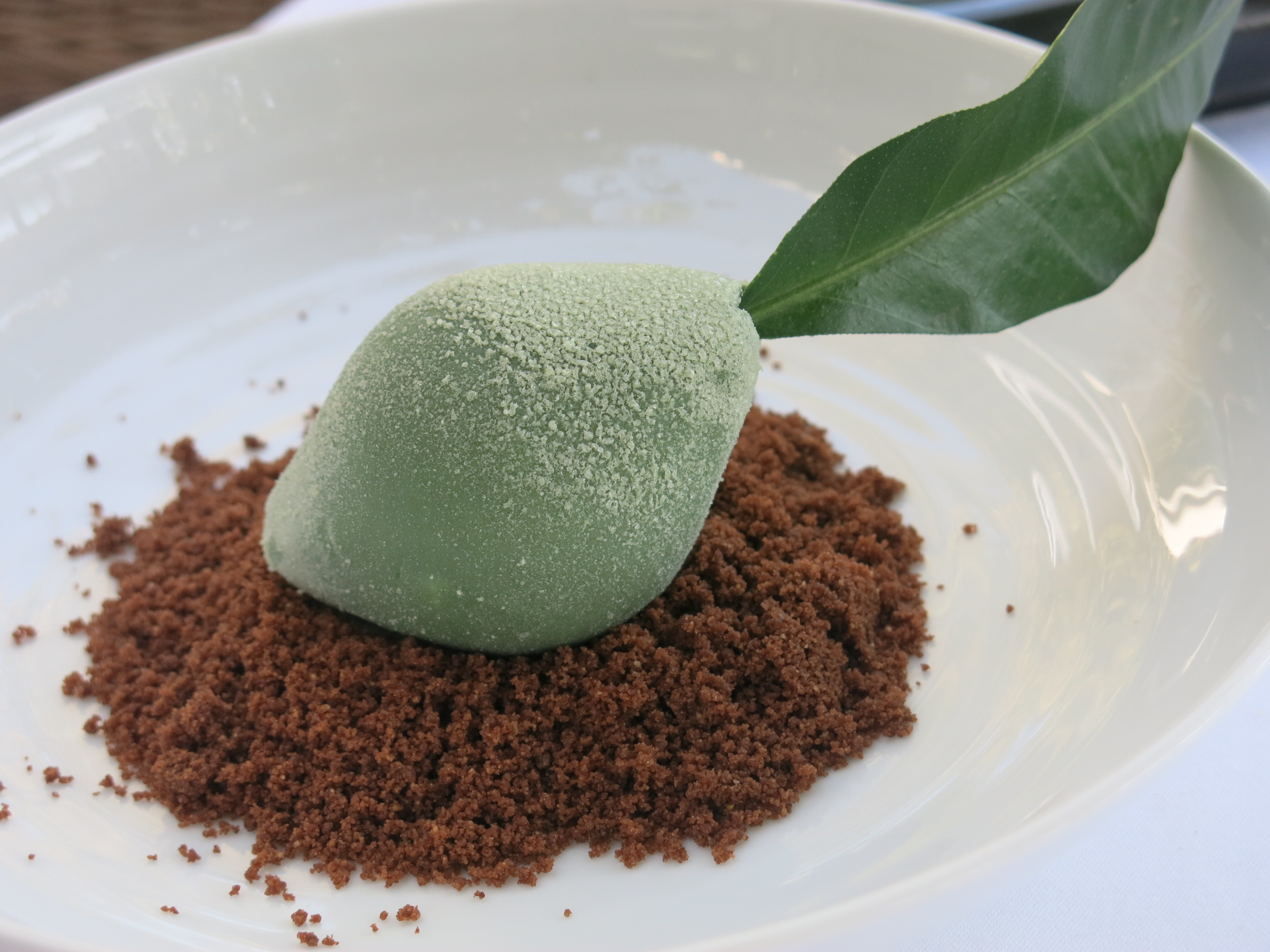 Trompe l'oeil of lime in the château de Brindos (Pyrénées-Atlantiques, France).